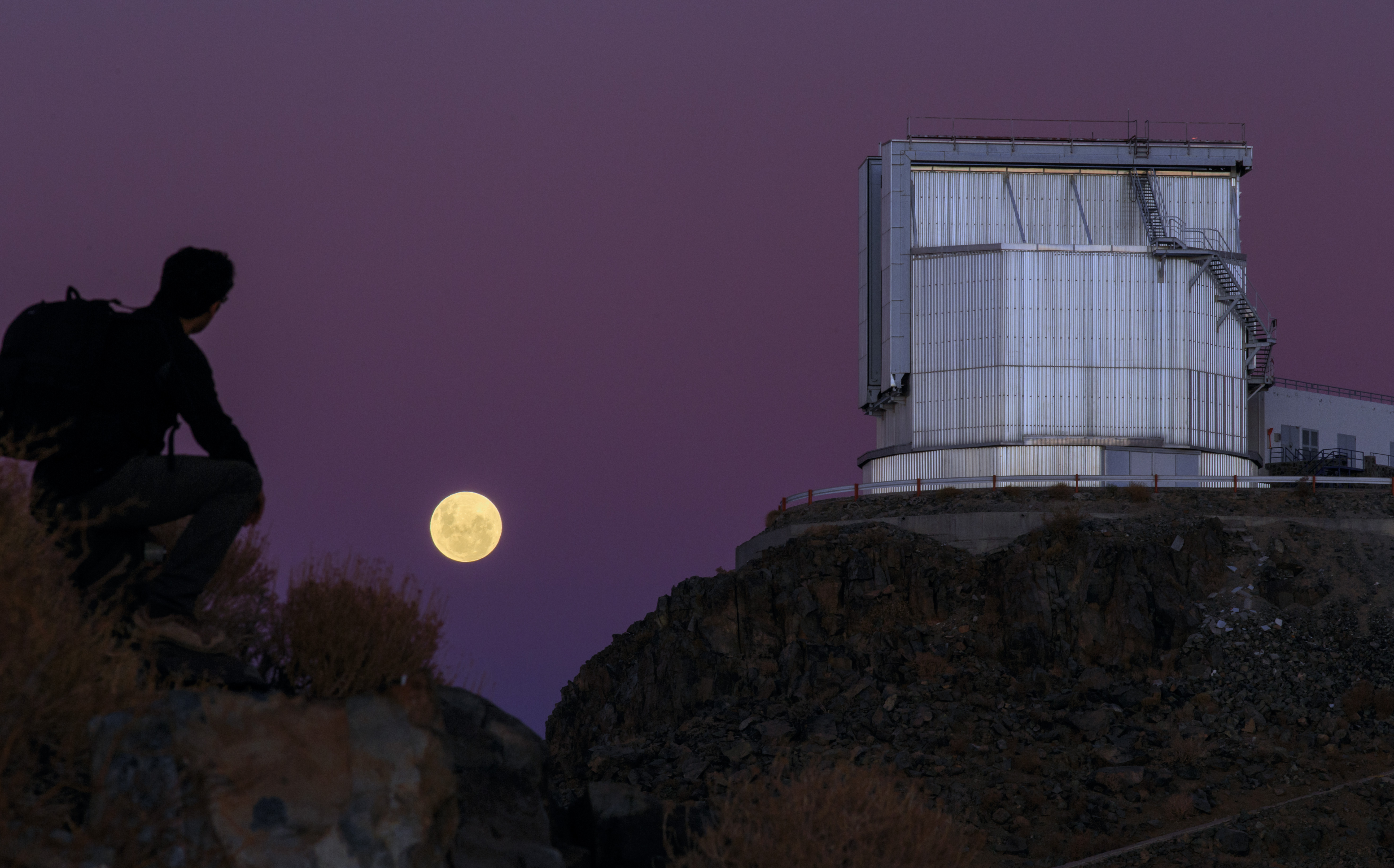 This picture, taken at the La Silla Observatory in Chile, shows the full Moon low in the purple sky, a photographer crouching on the rocks, and the New Technology Telescope (NTT) perched on a hilltop. This image depicts the three things we need for observational astronomy: An object to observe, a telescope to observe it, and a person to make sense of the observations. The Moon is the closest celestial body to Earth and orbits at a distance of 400 000 kilometres as our only natural satellite. Despite the aesthetic glow of the full Moon in this image, the Moon is not a great friend to astronomers. Sunlight that reflects off the lunar surface causes light pollution and makes it harder to observe more distant and very faint objects. Light pollution does not, however, bother the man admiring the view here. This is Babak A. Tafreshi, one of ESO's Photo Ambassadors. The gap between astronomers and extraterrestrial bodies is bridged by the telescope. In this picture we can see ESO's NTT, a telescope first installed in 1989 and completely upgraded in 1997 in the "NTT-Big Bang". A key feature of the NTT is that it pioneered the use of active optics to adjust the thin telescope mirror so that it is always the optimum shape to form the sharpest images.